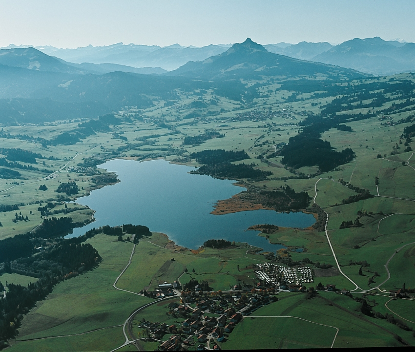 The photo shows the Grüntensee, a lake in Bavaria, Germany.